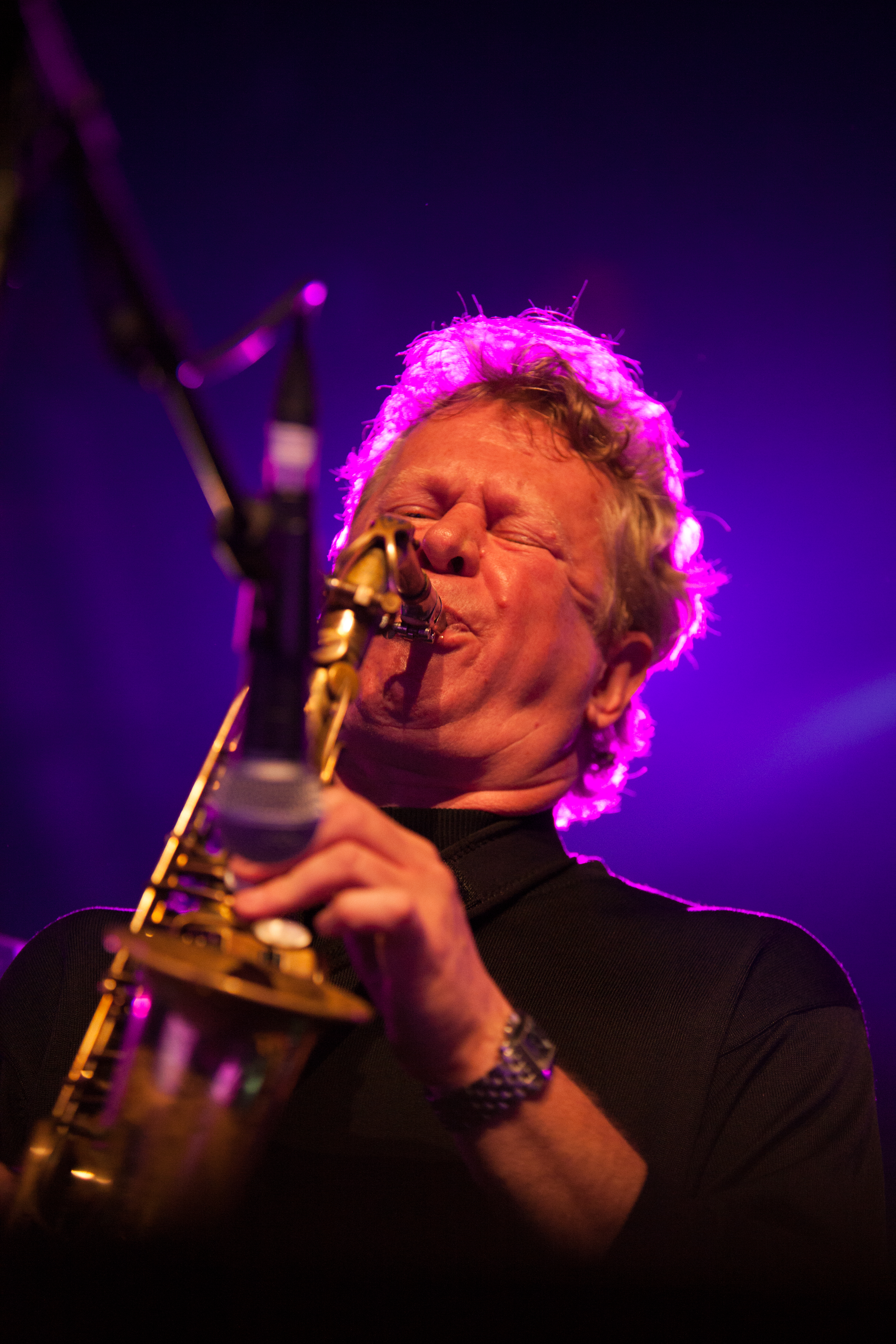 80th birthday of George Gruntz, dig my trane